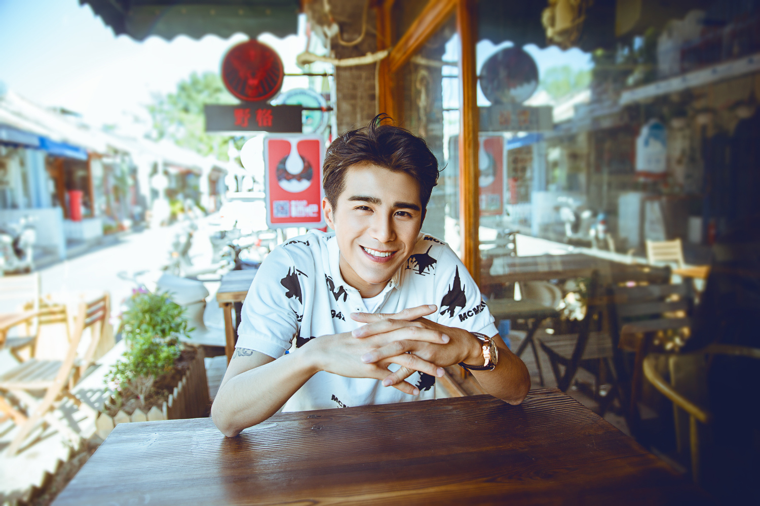 Jo Jiang in 2015